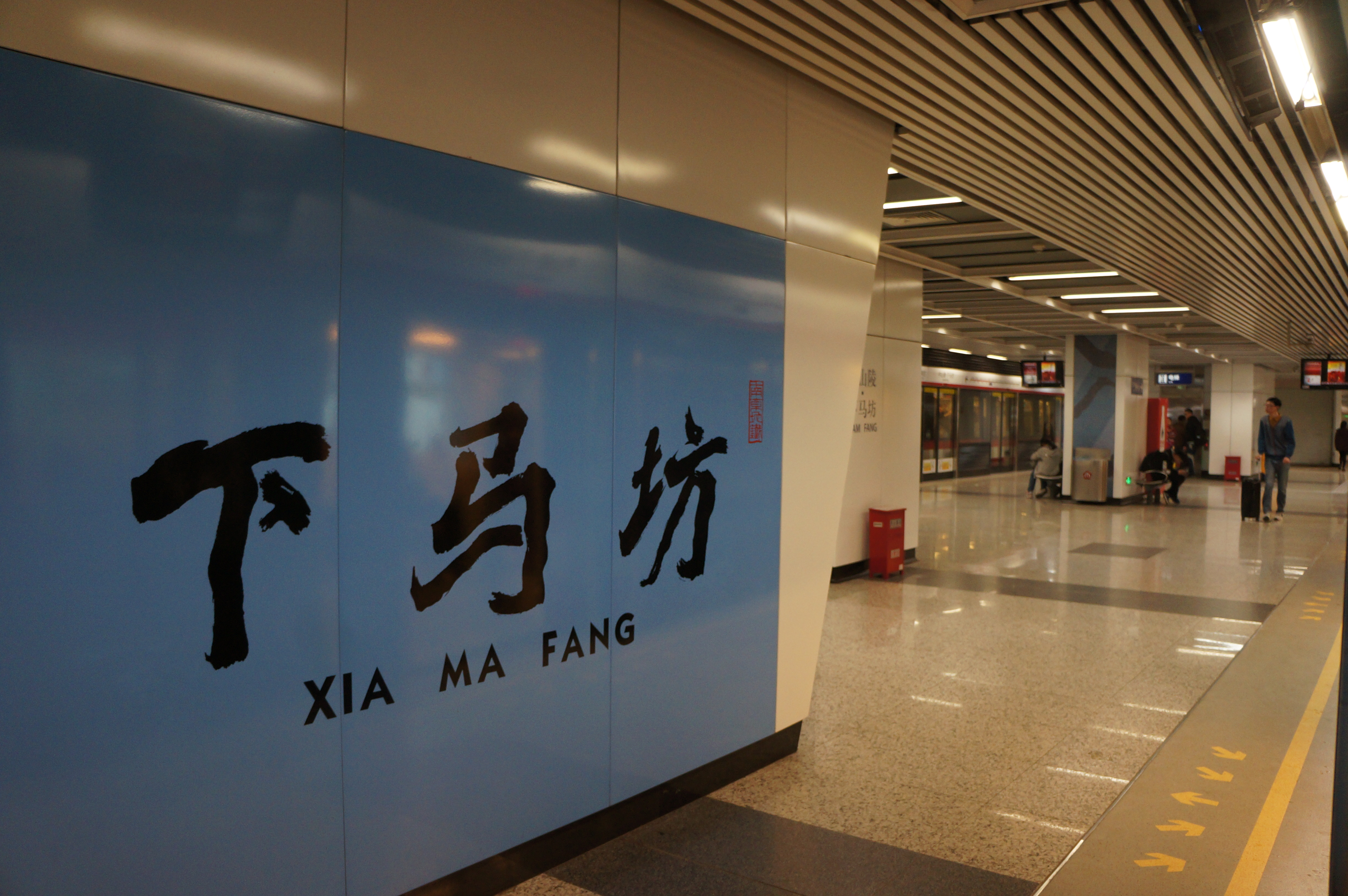 201704 Xiamafang Station